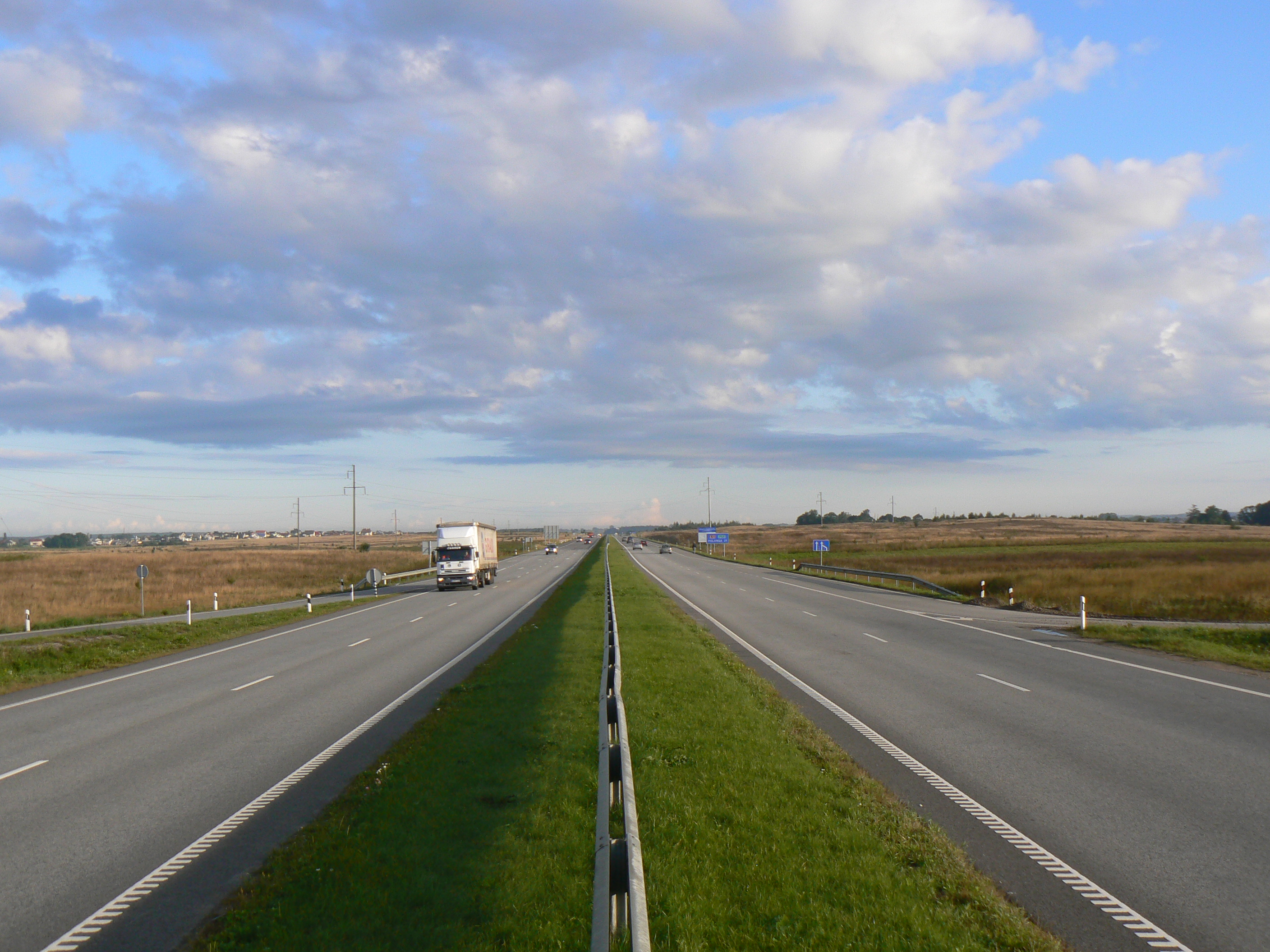 Highway Greitkelis A 13 near Klaipėda, view to North